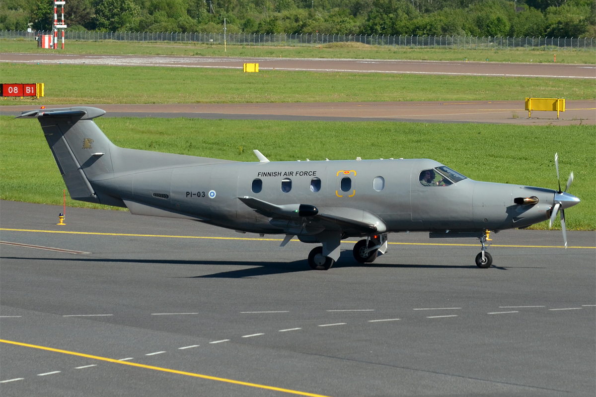 Finnish Air Force, PI-03, Pilatus PC12/47E